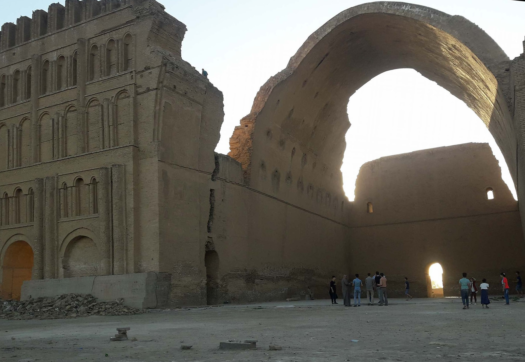 Taq Kasra in Baghdad, Iraq